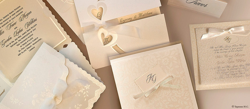 Wedding invitations